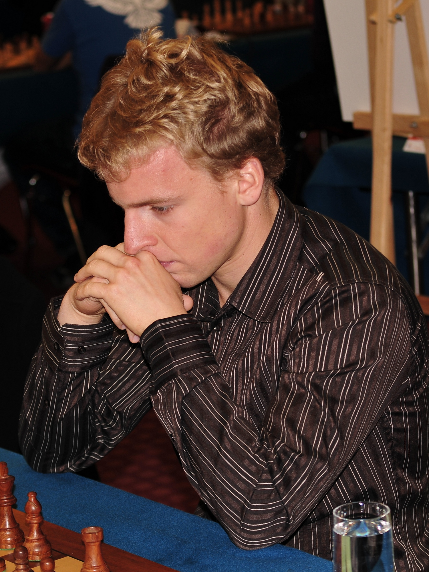 GM Viktor Láznička, European Chess Team Championship Warsaw 2013